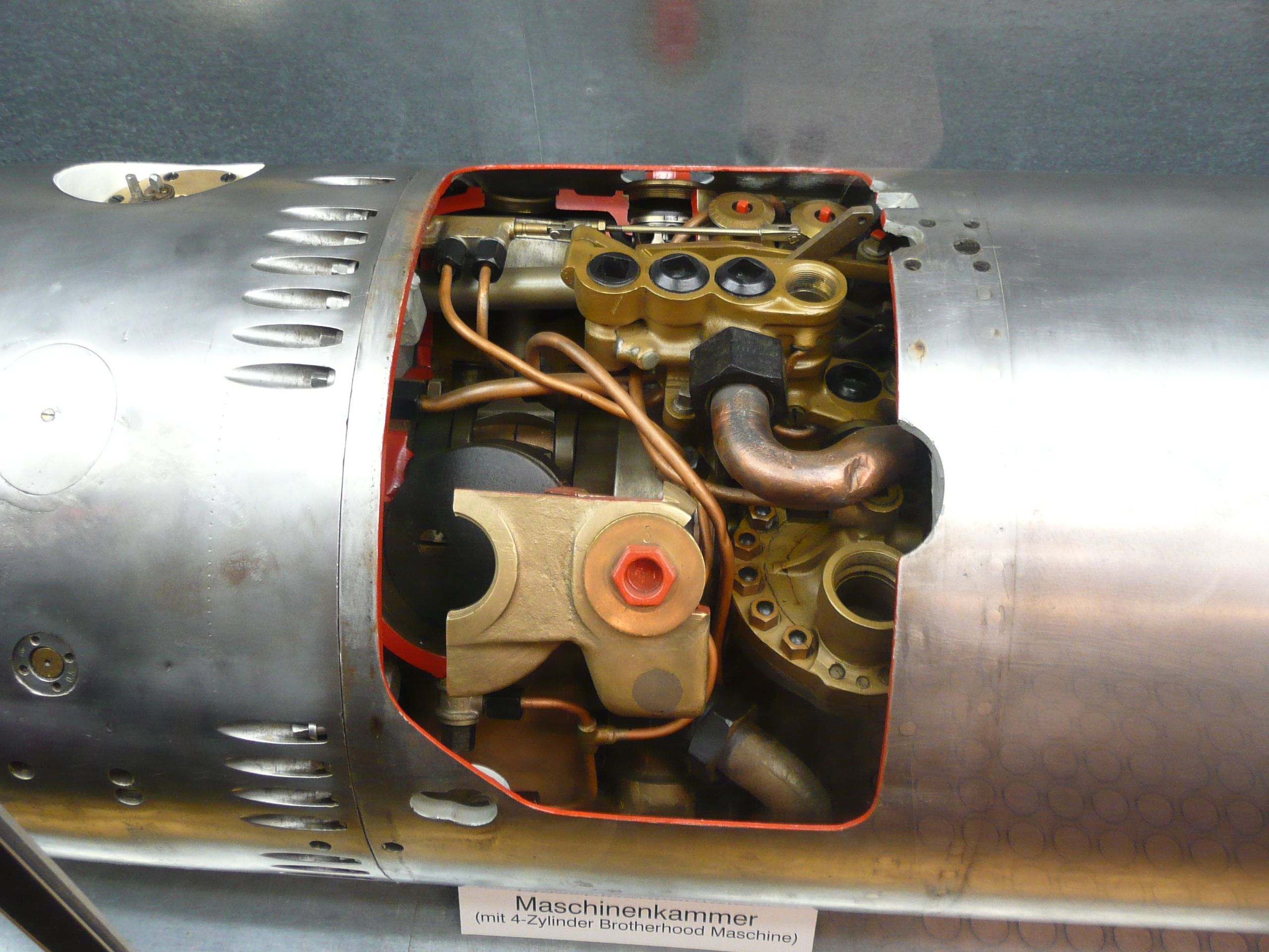 Einblick in die Motorenabteilung eines deutschen G7 Torpedos. Ausgestellt im Museums-U-Boot "Wilhelm Bauer" in Wilhelmshaven. View inside the motor compartement of a german G7 torpedo. Displayed inside the museum U-Boot "Wilhelm Bauer" at Wilhelmshaven.